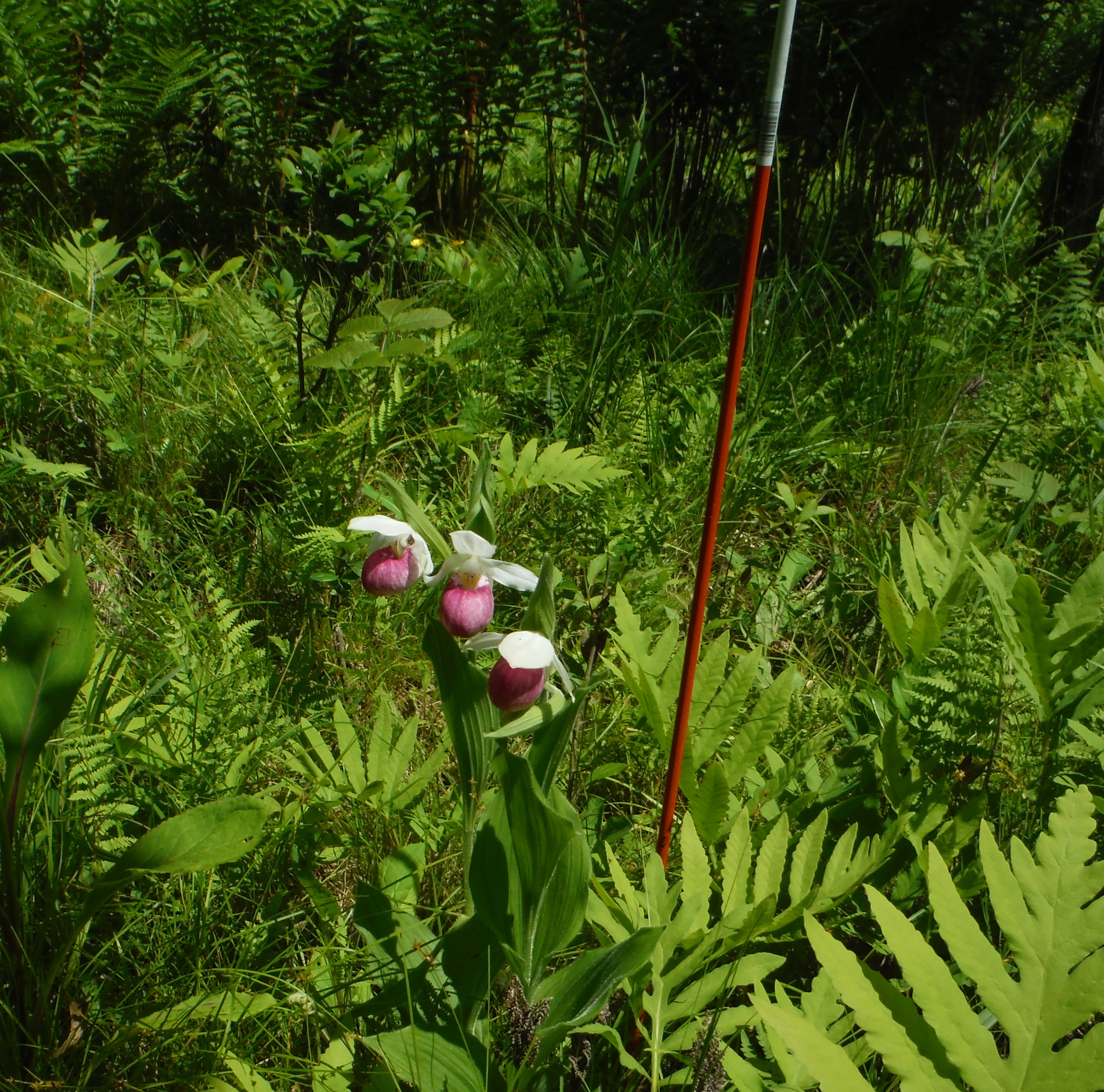 Flower seen in its natural habitat.